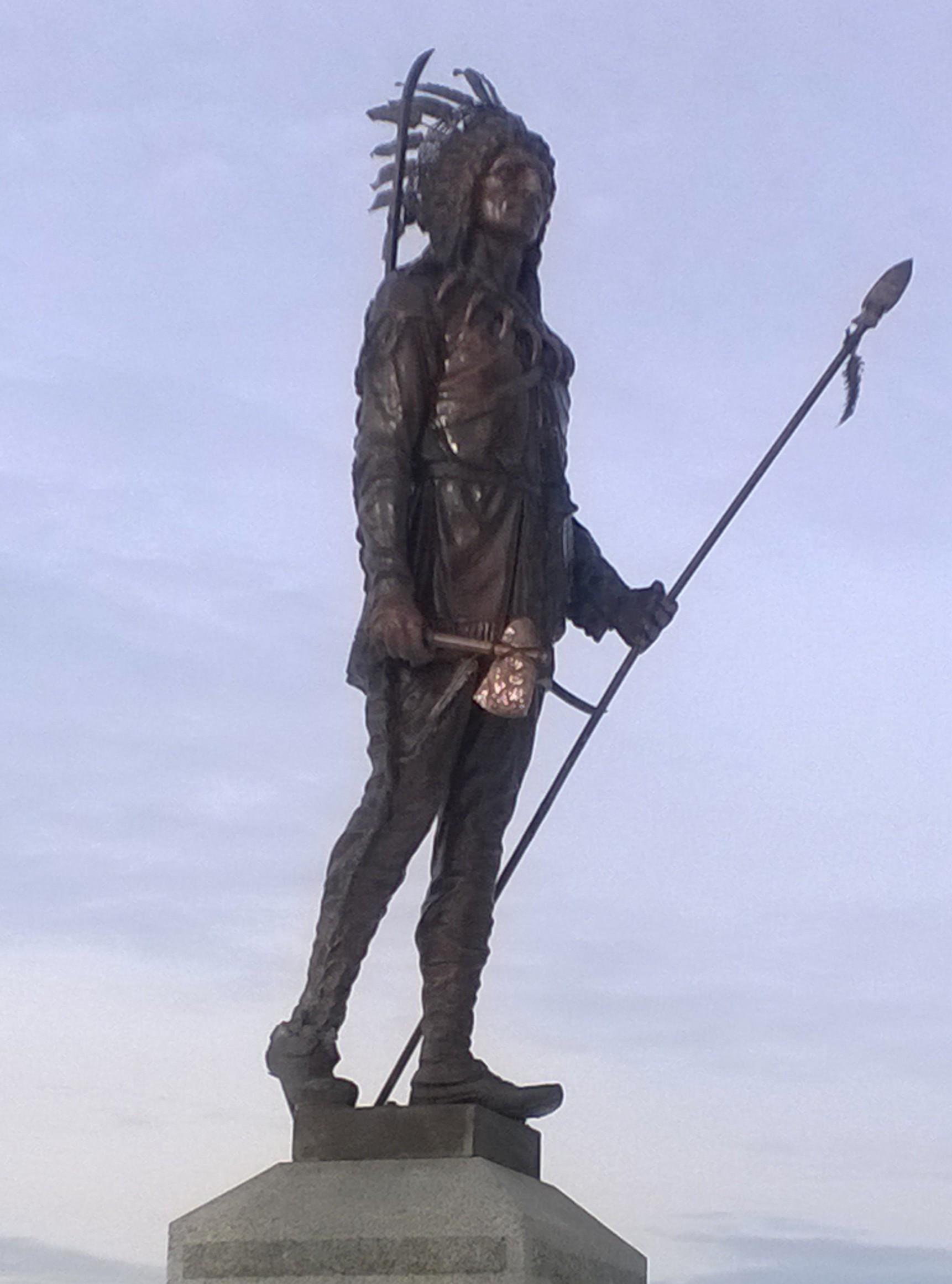 Statue of the Pennacook chieftain Passaconoway, in Edson Cemetery, Lowell, Massachusetts.